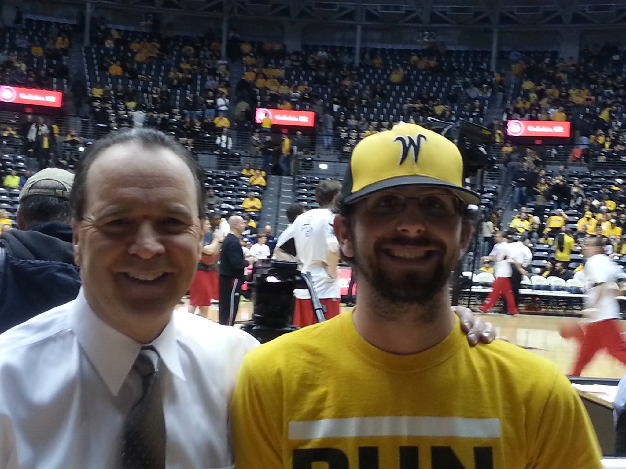 A picture of Mark Adams, basketball coach and current ESPN commentator.